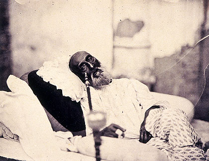 Mughal emperor Abu Zafar Sirajuddin Muhammad Bahadur Shah Zafar, aka Bahadur Shah Zafar II. (1775-1862), in May 1858, "in captivity in Delhi awaiting trial by the British for his support of the Uprising of 1857-58" and before his departure for exile in Rangoon. This is possibly the only photograph ever taken of a Mughal emperor. Details at British Library page This file has been provided by the British Library from its digital collections. This tag does not indicate the copyright status of the attached work. A normal copyright tag is still required. See Commons:Licensing.